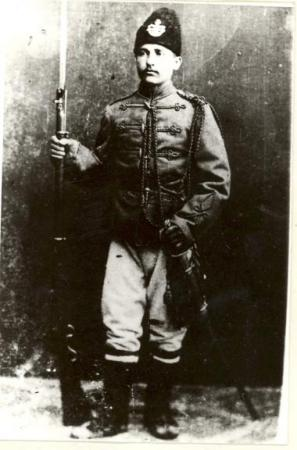 A photo of Nikola Obretenov in a uniform